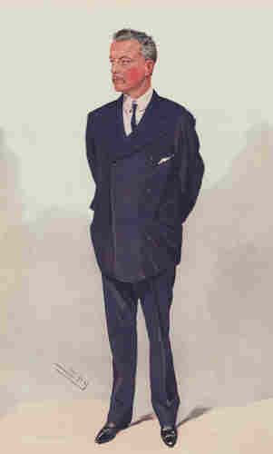 Caricature of Abraham "Abe" Bailey (1864-1940), later Baronet. Caption read "Rhodes the Second".